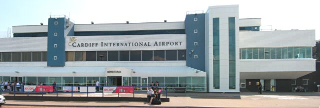 Cardiff International Airport, Rhoose